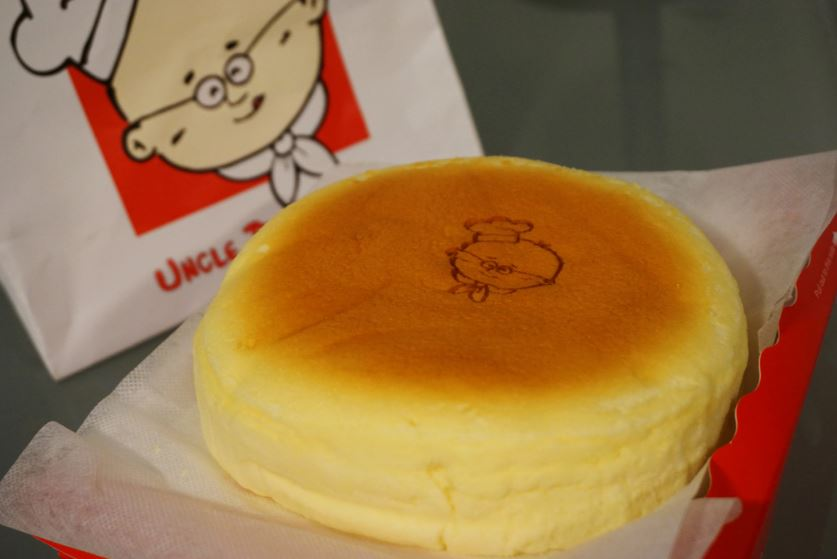 Uncle Tetsu's cheesecake has special branding